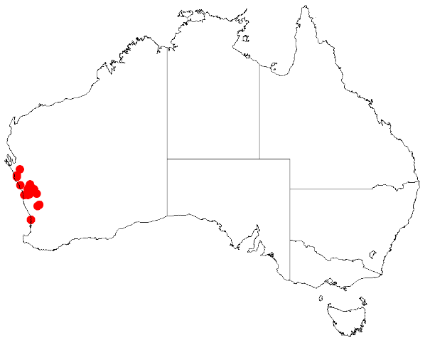 Acacia aciphylla Occurrence data from Australasia Virtual Herbarium downloaded from on 8 December 2018